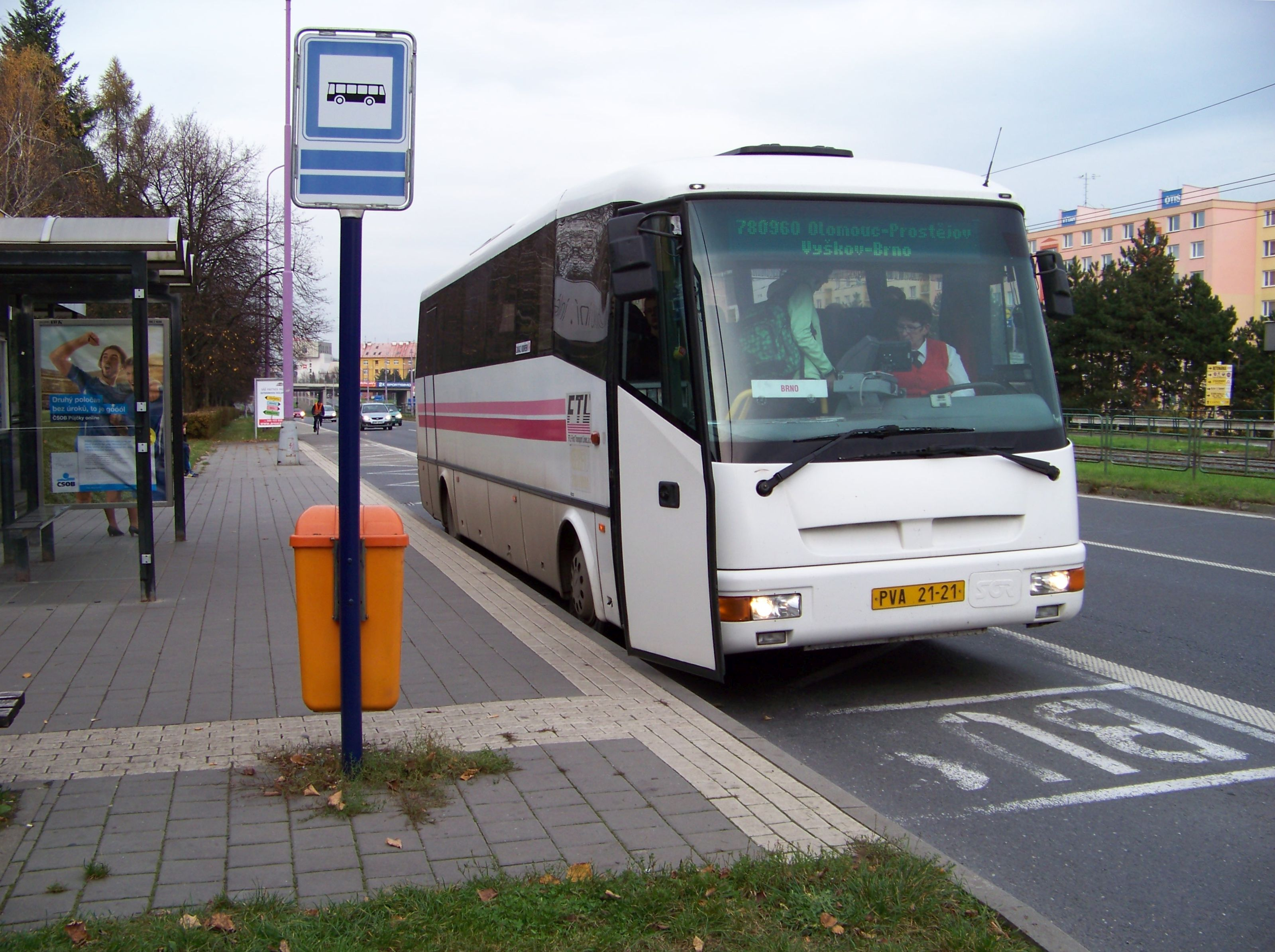 Olomouc-Nová Ulice, Olomouc District, Olomouc Region, Czech Republic. Brněnská, bus stop Fakultní nemocnice. A bus SOR LC 10,5 of FTL.